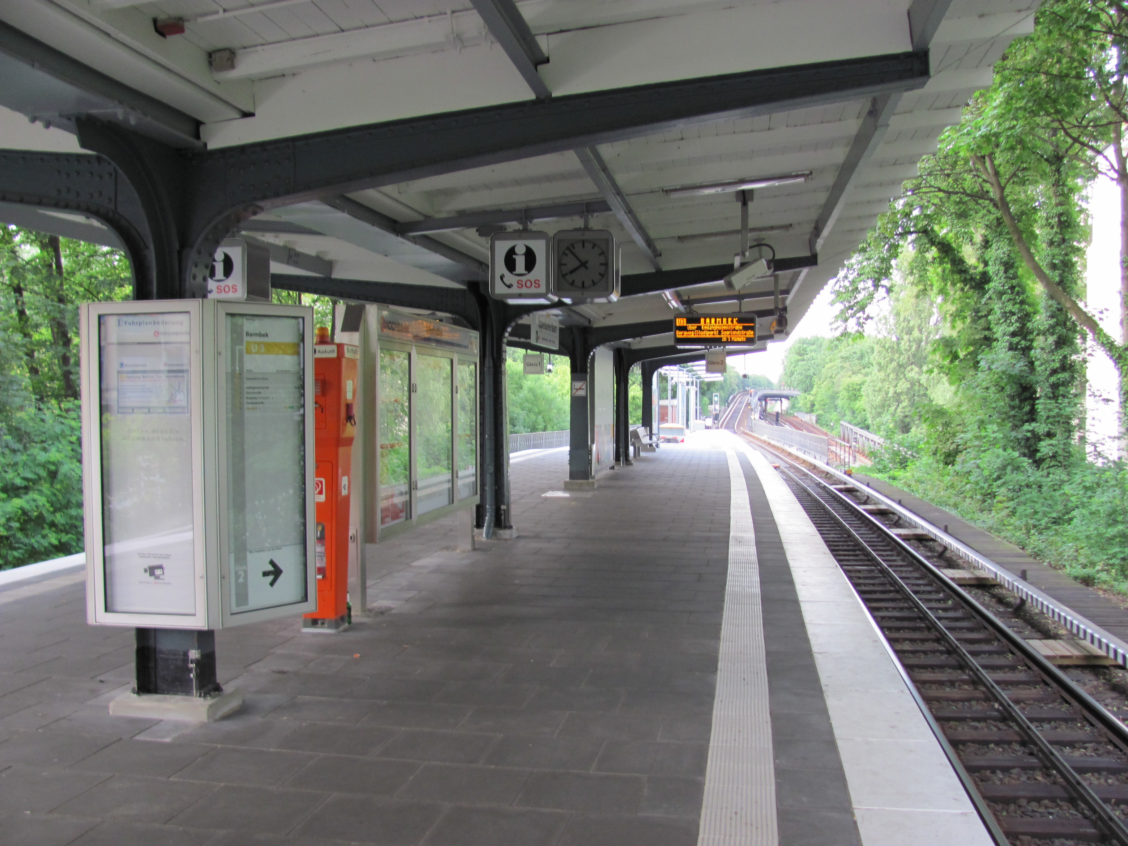 U-Bahn station Eppendorfer Baum in Hamburg, Germany